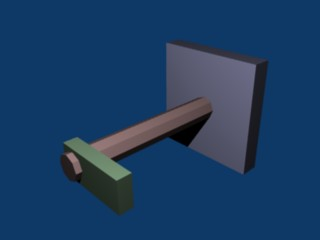 A rendering of a torsion bar with no load applied.